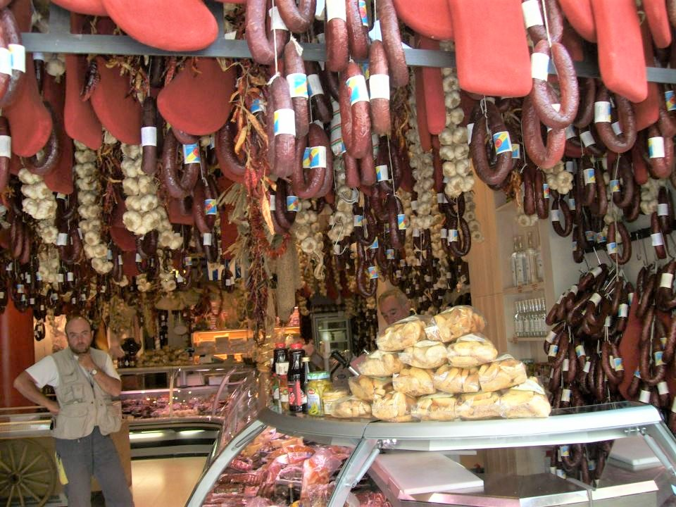 Miran Pastourma (August 2012)